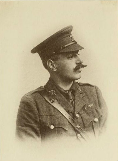 Lord Ninian Edward Crichton-Stuart (1883-1915) MP, in uniform, before his death in the First World War.